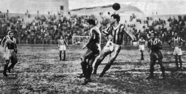 Naples (Italy), Partenopeo Stadium, December 15, 1935. A.C. Napoli — F.B.C. Juventus 0-1, Matchday 11 of the Italian Championship 1935–36 Serie A: Juventus' defender Alfredo Foni rejects the ball on the incursion of the Napoli's midfielder Carlo Buscaglia.